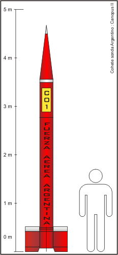 Argentine sounding rocket Canopus II